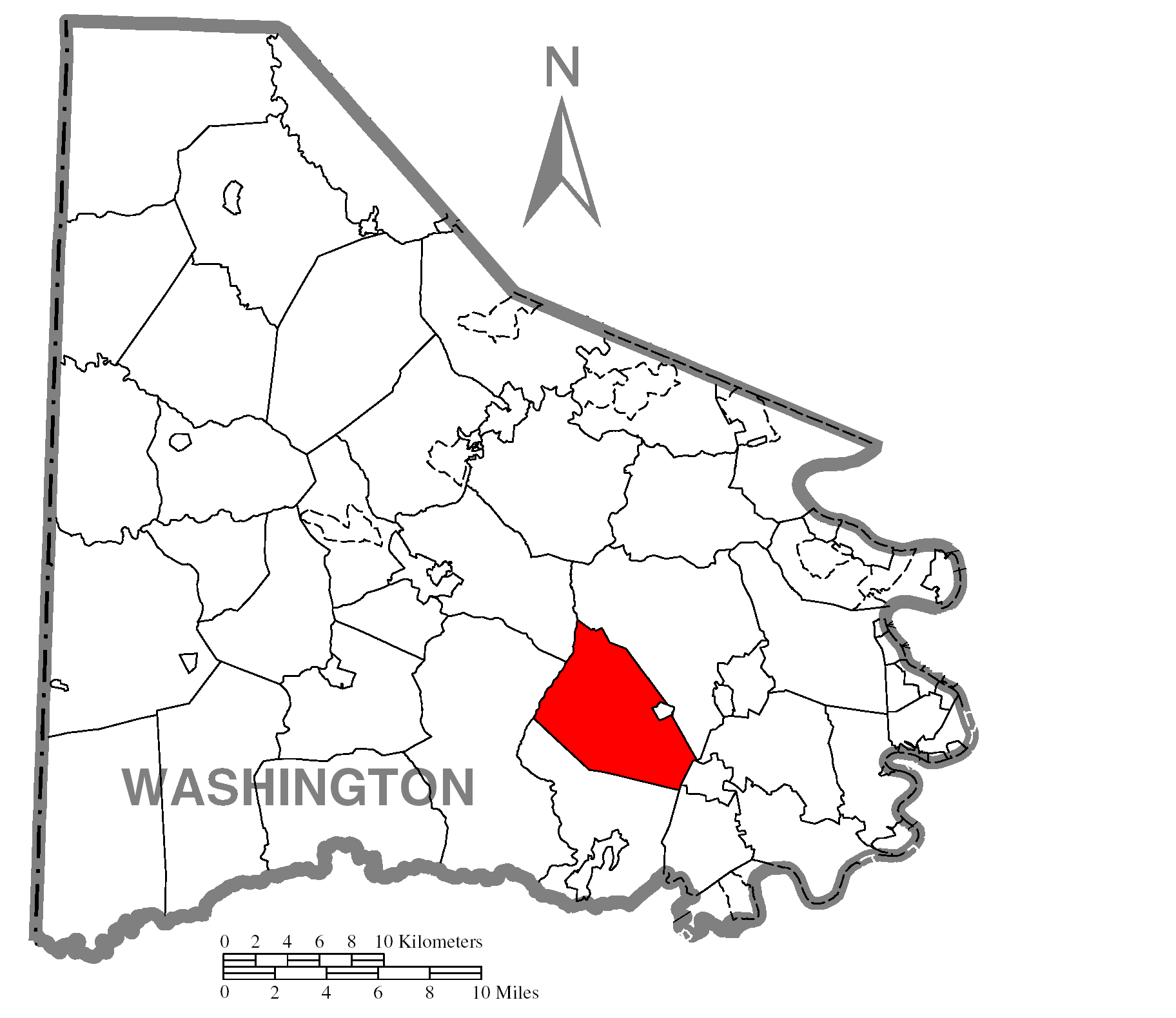 Map of Washington County higlighting North Bethlehem Township.